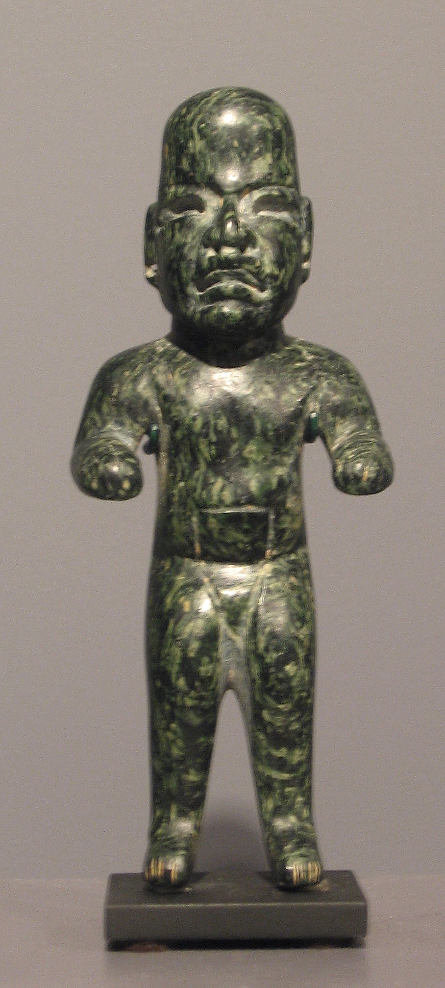 Olmec figurine, dark green serpentine, 1000 - 600 BCE, reportedly from Guerrero or Veracruz.[1] Inlays, since lost, once animated the eyes, ears, nose, and mouth.[2] About 2.5 in (6 cm)